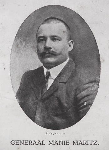 Photo of Manie Maritz, who led an insurrection in Union of South Africa in 1914 and then walk over to the germans